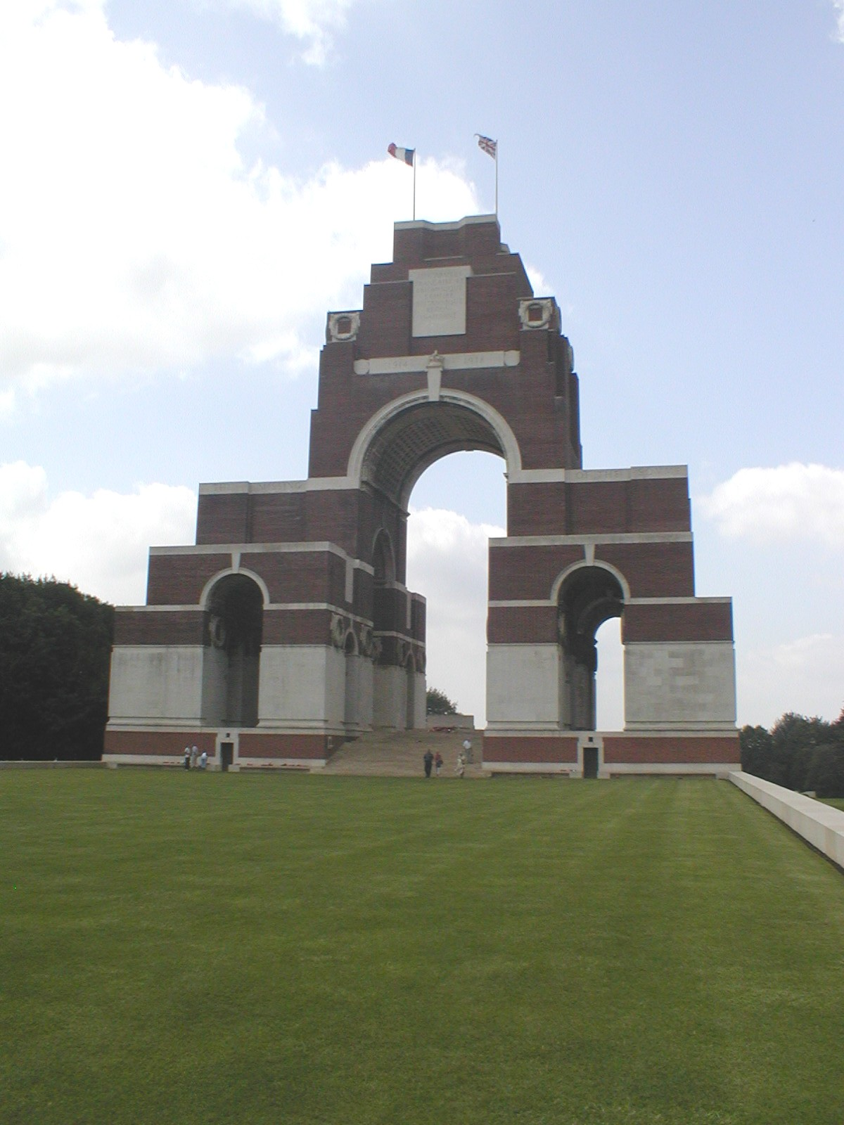 Thiepval Memorial, Somme, France This photograph was taken by User:Arcturus on 14th August 2004.